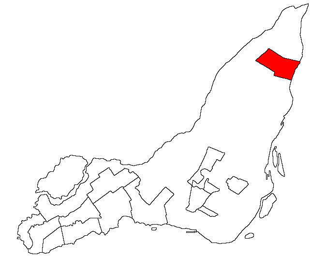 Carte de Montréal-Est sur l'Île de Montréal